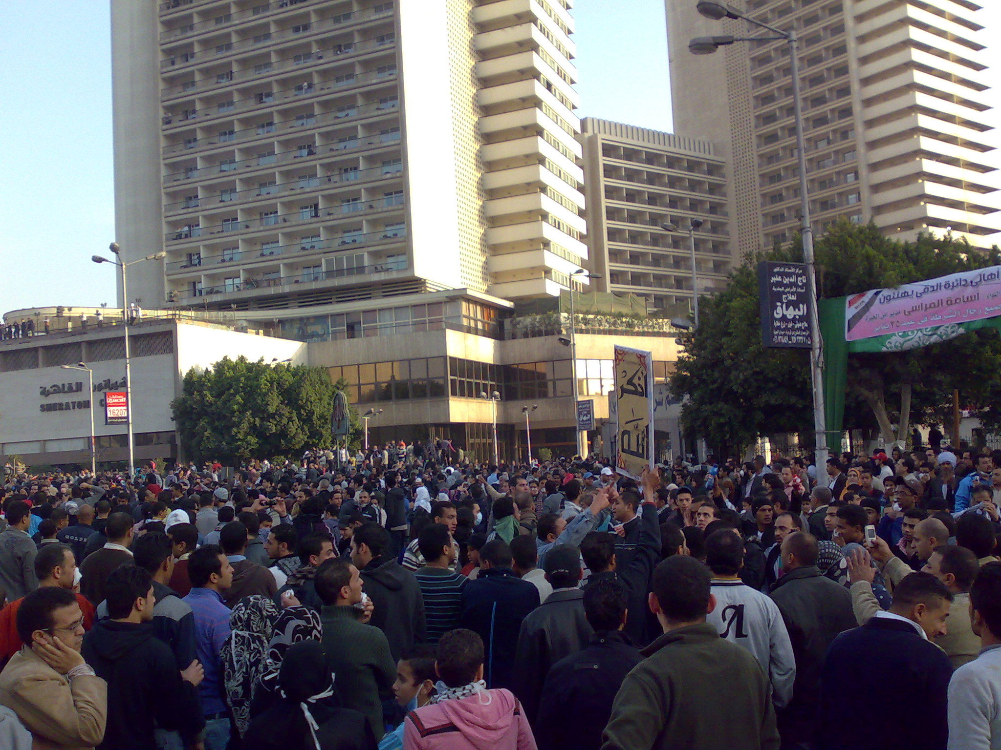 28 January 2011 Photographed by: Ramy Raoof